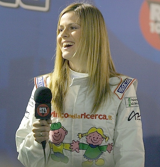 Thais Souza Wiggers. Monza Rally show 2007.